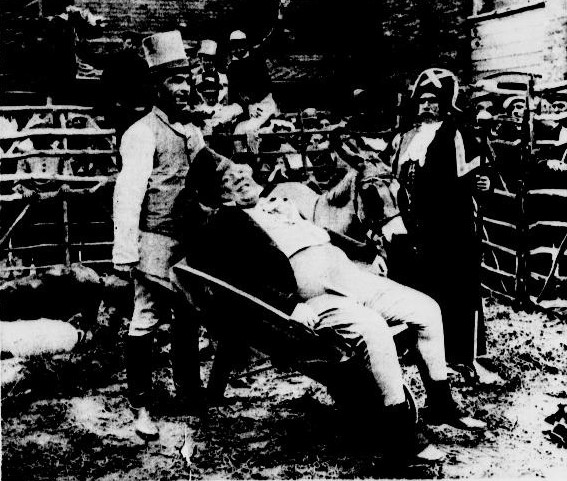 Still from the 1913 Vitagraph Studios film The Pickwick Papers. Original caption: "The late John Bunny as Dickens's beloved character, Mr. Pickwick. Mr. Pickwick's arrival in the pound after he fell asleep on Captain Boldwig's land under the influences of many punches. Produced in England by the Vitagraph Company."